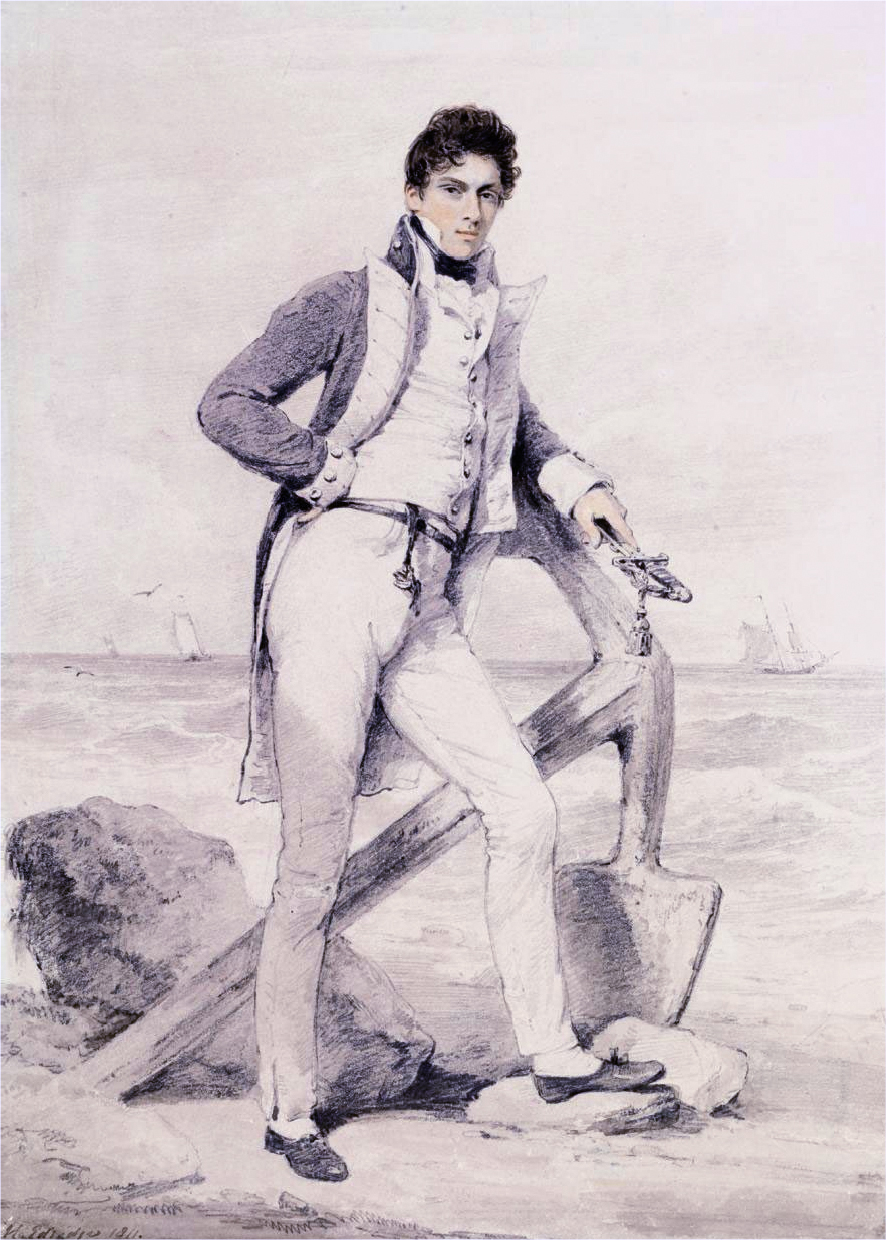 Portrait of Captain Hoste of H.M.S. Amphion, his sword in his left hand, standing on the foreshore by an anchor signed and dated 'H. Edridge 1811.' (lower left) pencil and grey wash with touches of pink wash, on paper 42.6 x 30.5 cm.